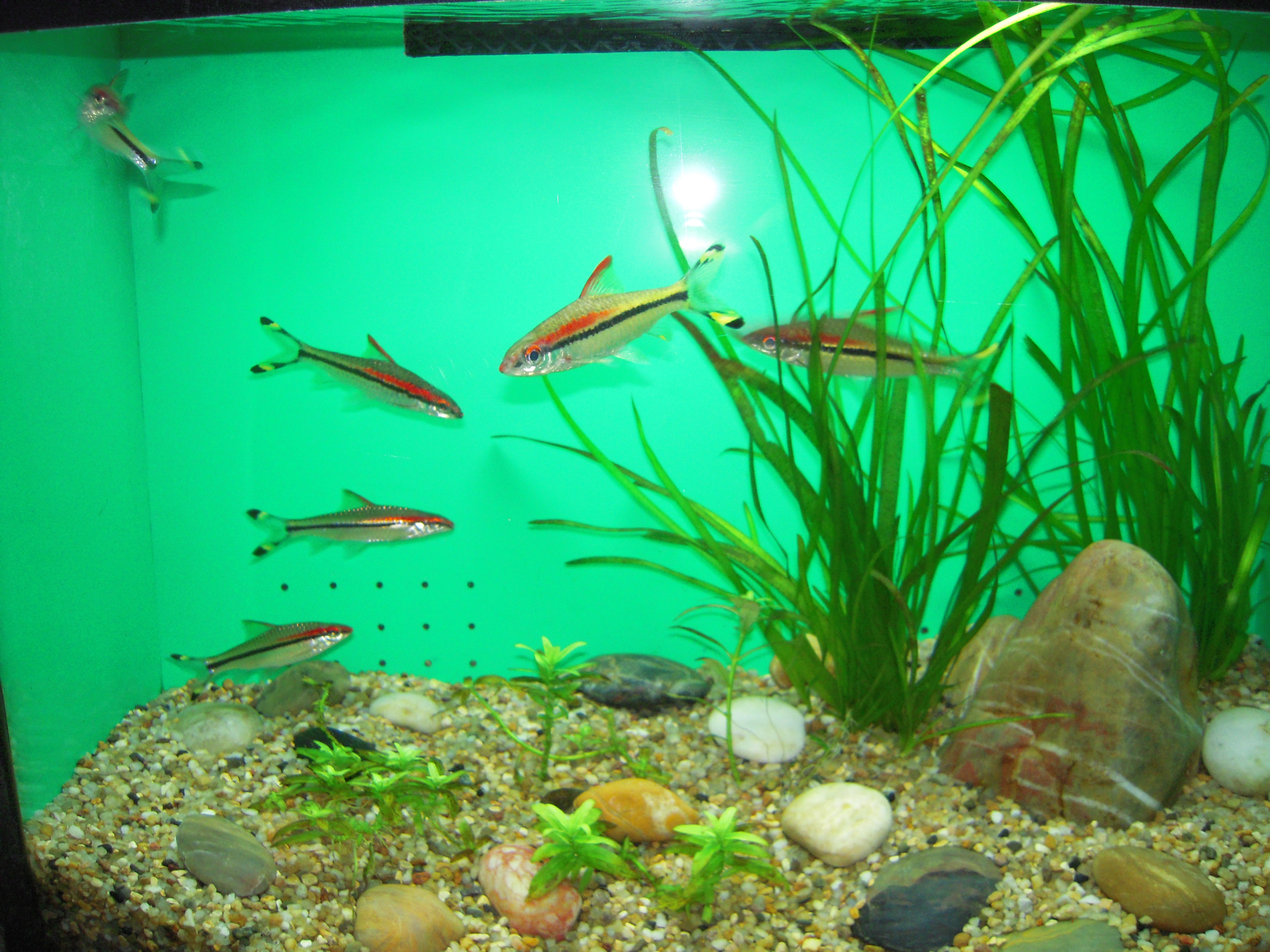 A school of Red Lined Torpedo Barbs swim in an aquarium.